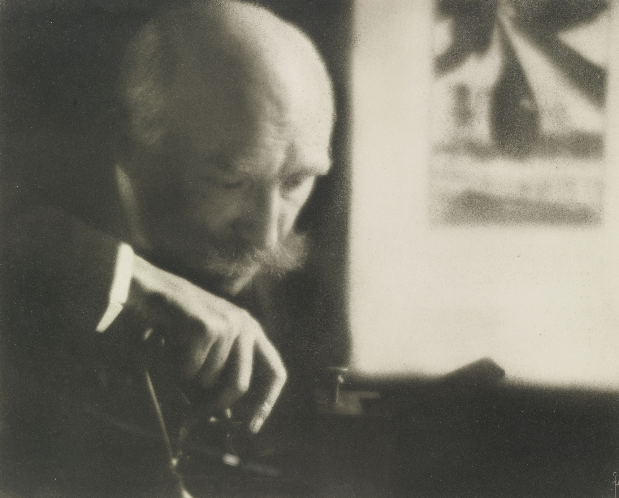 Oil print self-portrait of Pierre Dubreuil